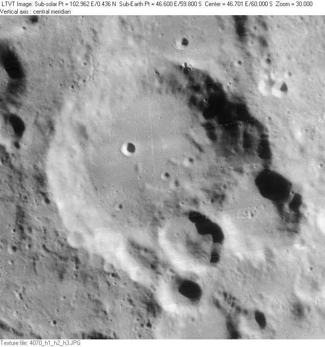 Crater Hagecius. Detail from Lunar Orbiter IV-070H. High resolution scans from the USGS Lunar Orbiter Digitization Project remapped to a north-up aerial view by LTVT.